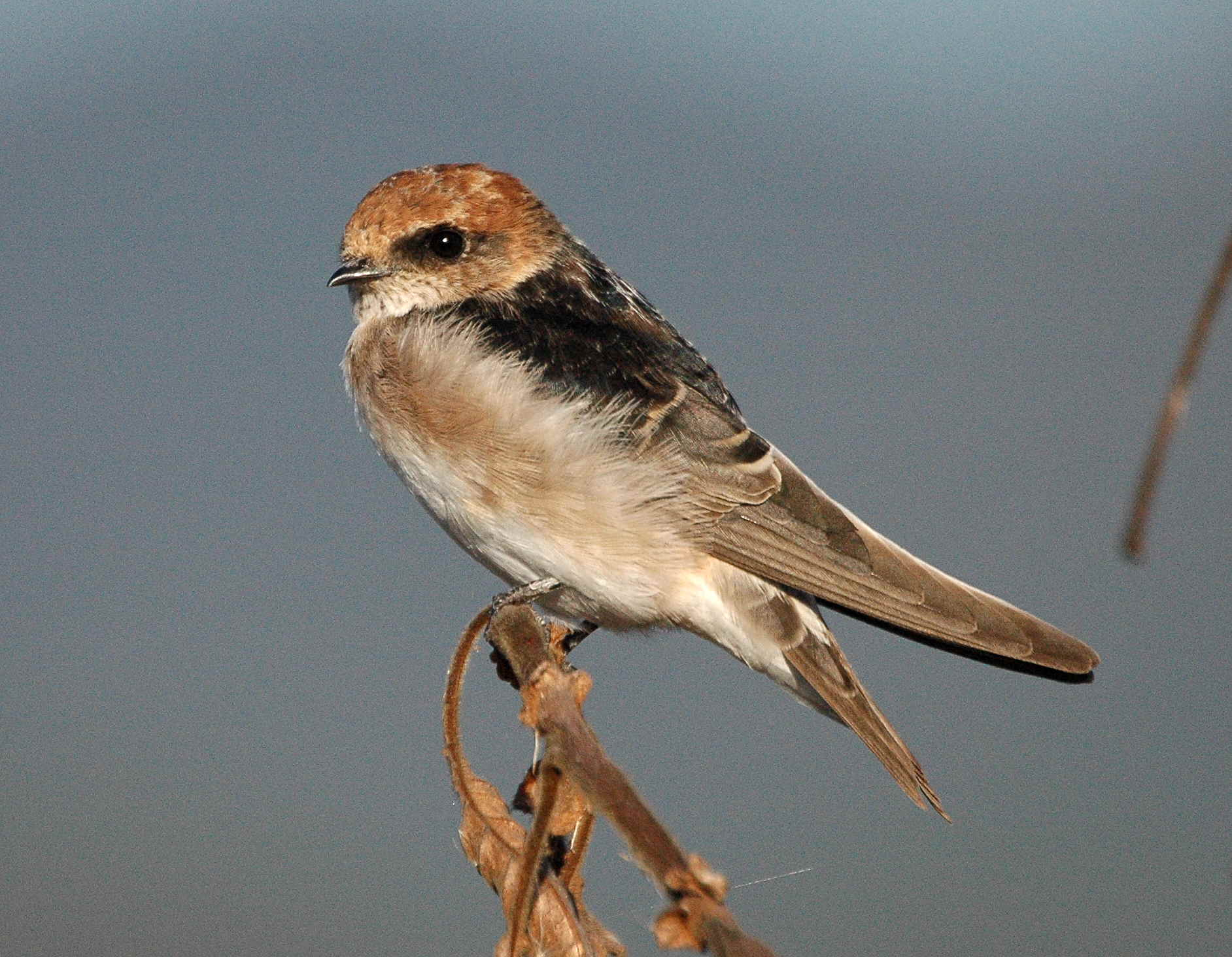 Fairy Martin Petrochelidon ariel (syn. Hirundo ariel) Samsonvale Cemetery, SE Queensland, Australia